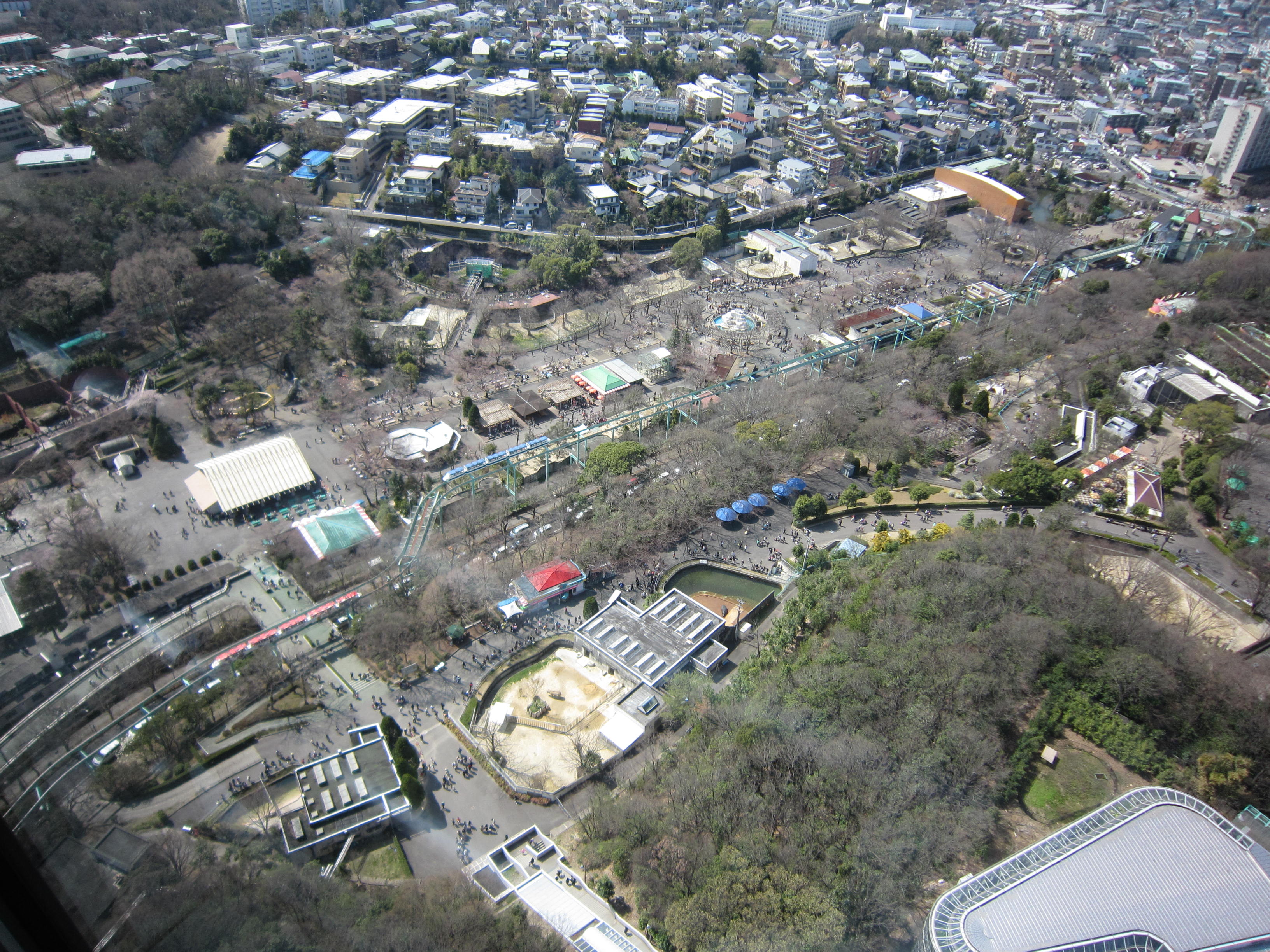 Higashiyama Zoo and Botanical Gardens Aerial